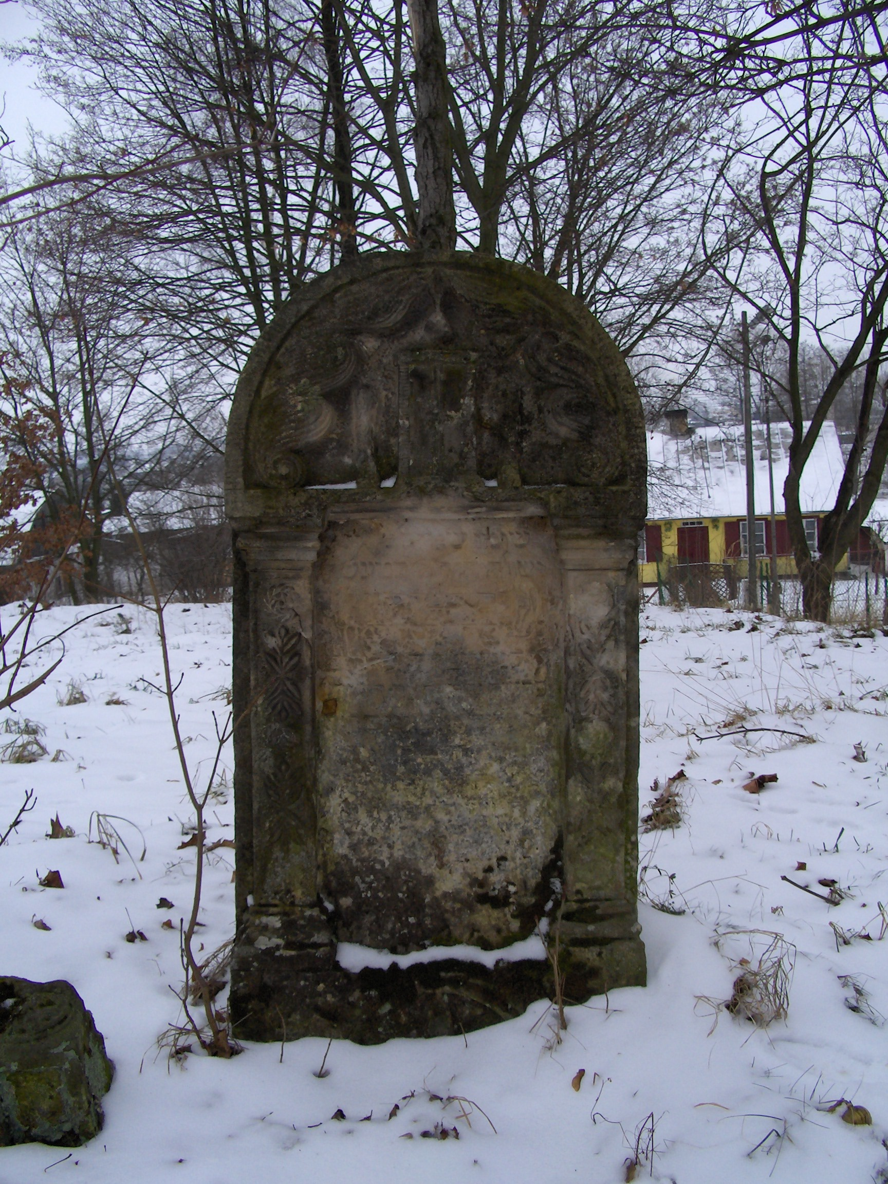 Jewish cemetery in Żelechów